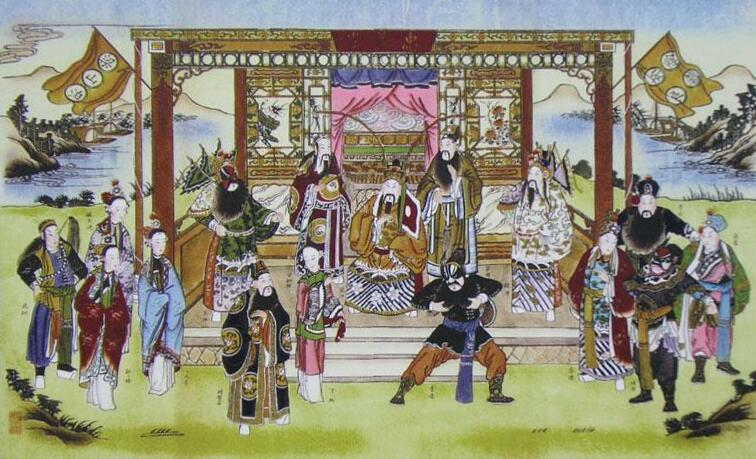 New Year picture of Qing Dynasty